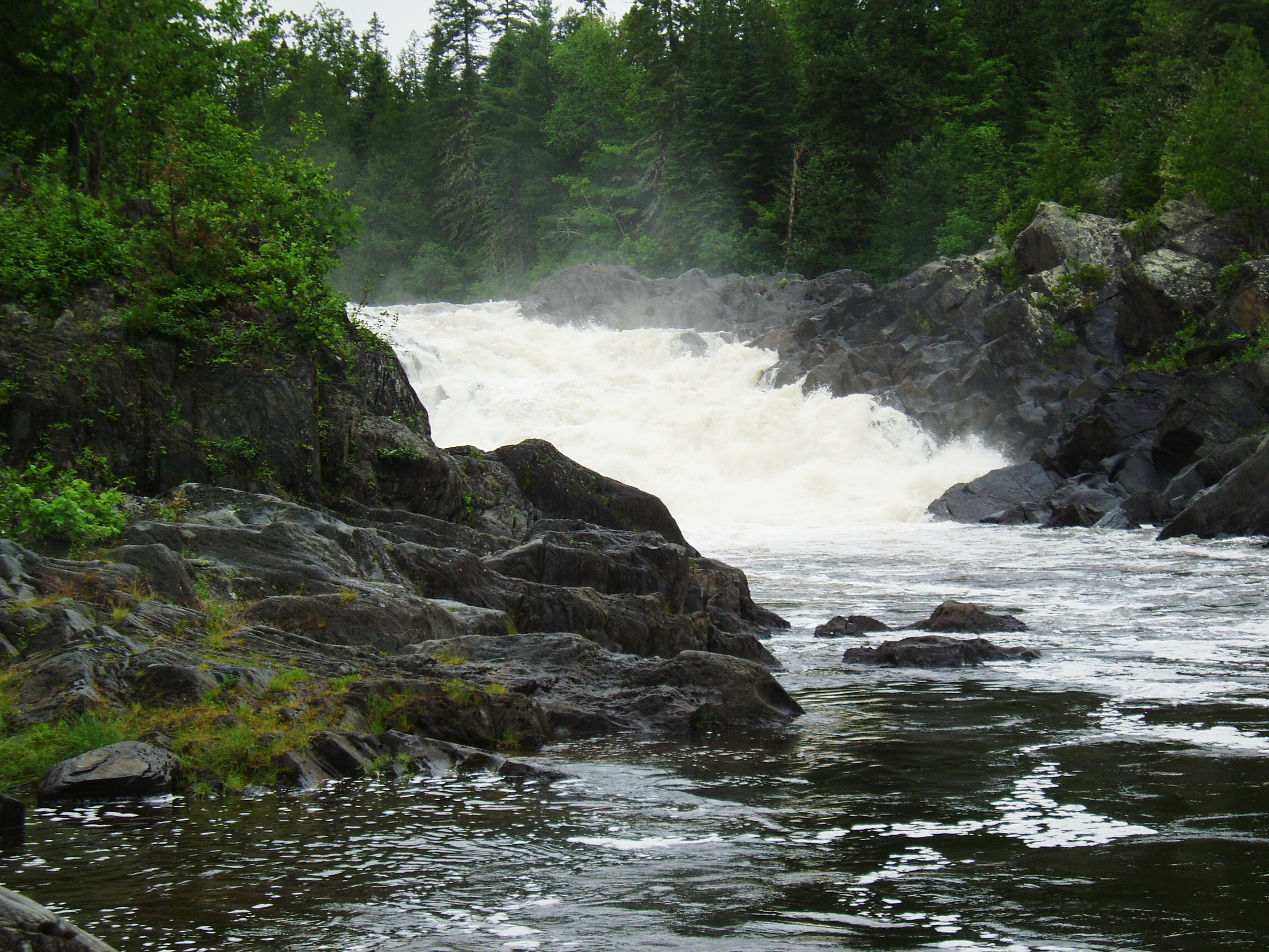 Allagash Waterfalls in 2003